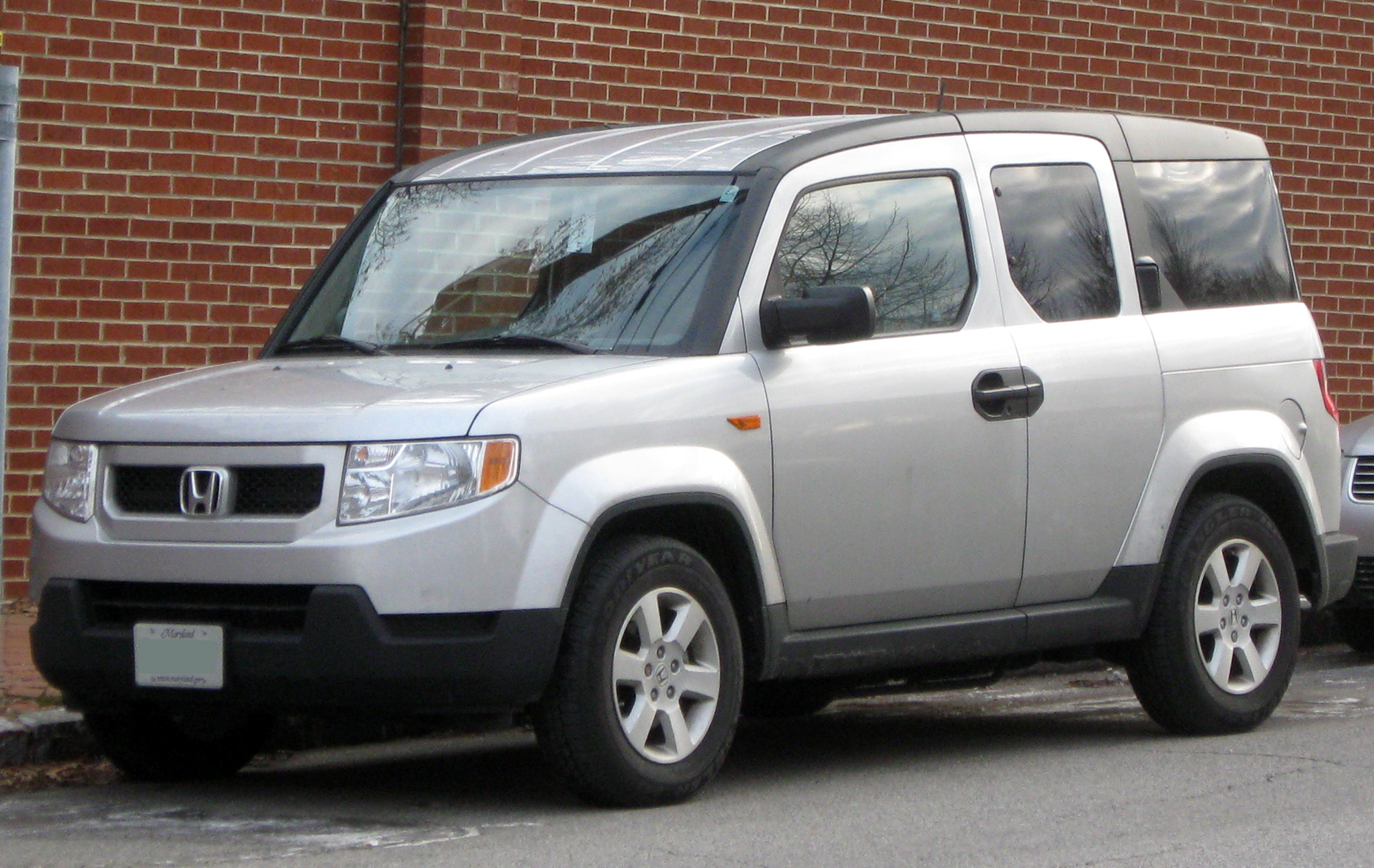 2009-2010 Honda Element photographed in Annapolis, Maryland, USA.